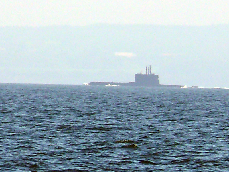 I, creator of this photograph cease my personal rights to this media for the Wikipedia and public domain.